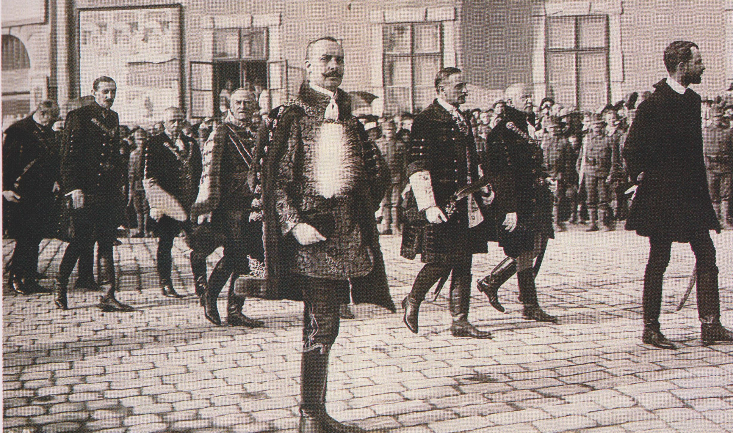 Prime Minister Count Móric Esterházy (far right) and other cabinet members at Procession of the Holy Right Hand on 20 August 1917, last day of his premiership.